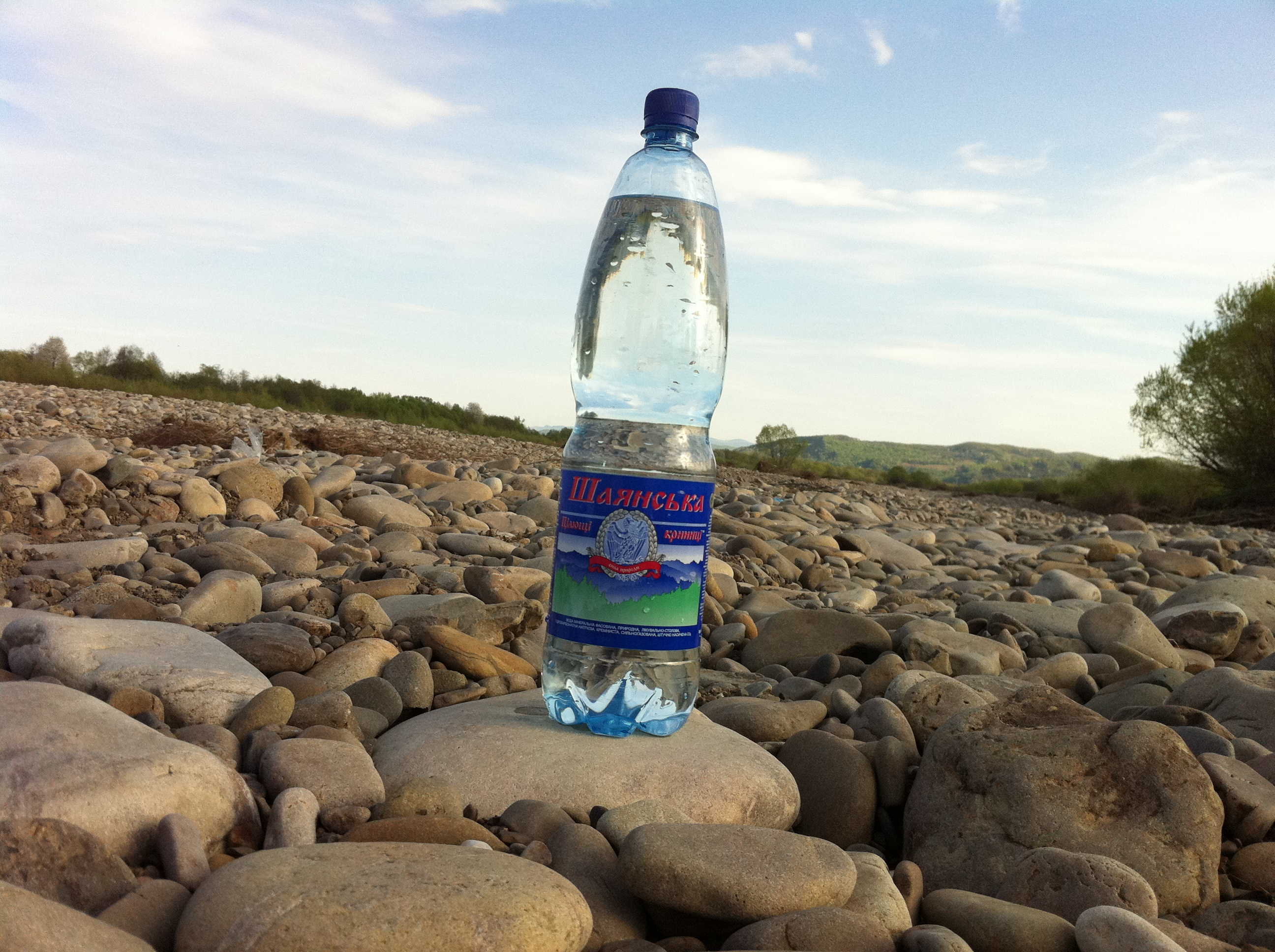 ШАЯНСЬКА